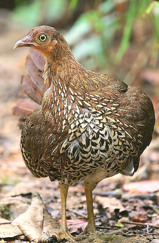 The females, though not colourful, are very attractively marked. Image taken in Sinharaja Rain Forest in the south-west of Sri Lanka.